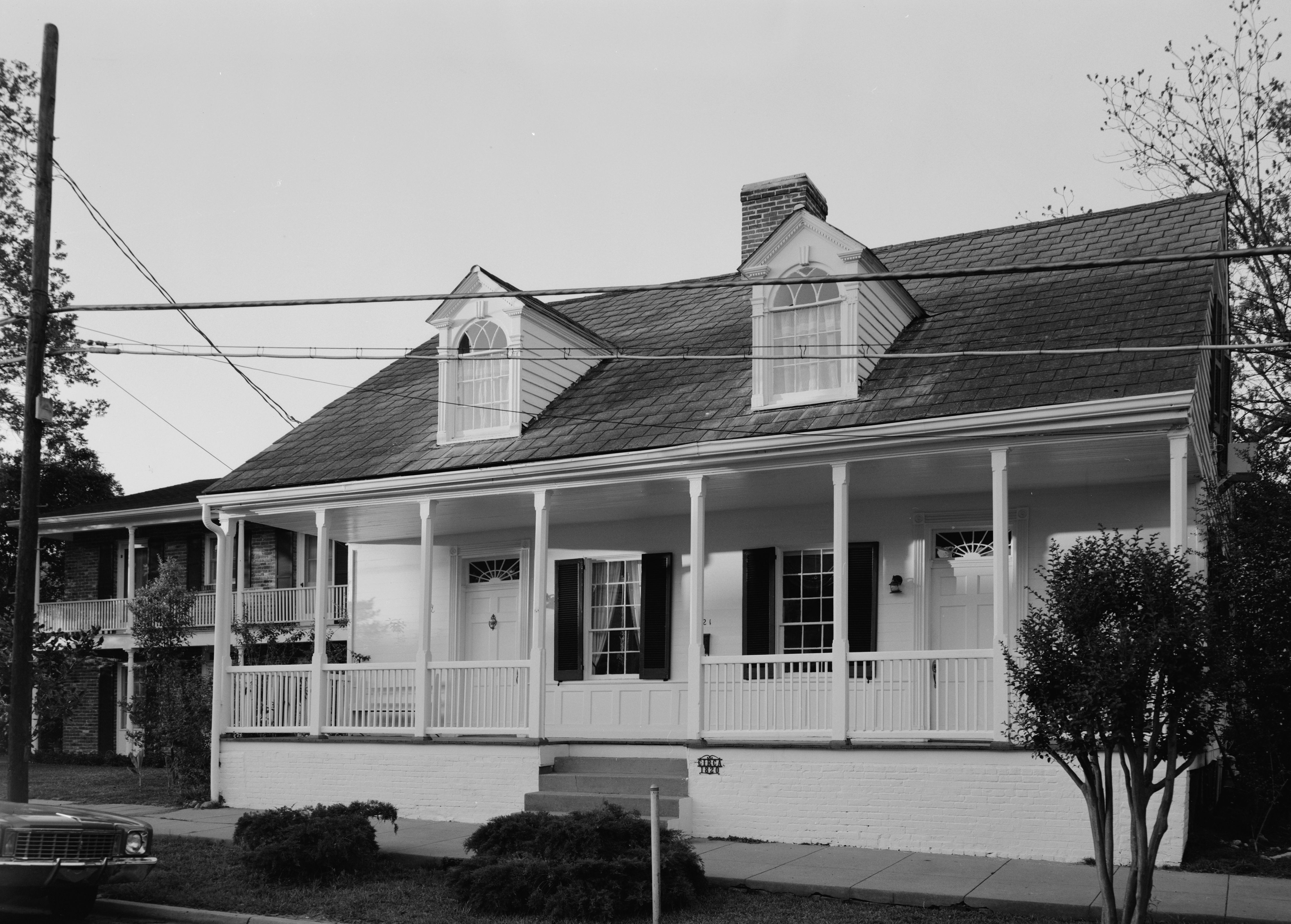 Williamsburg, 821 Main Street, Natchez, Adams County, MS. Built 1830-40.